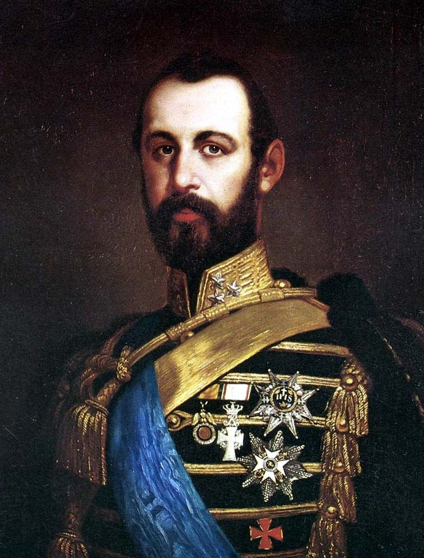 King Carl XV of Sweden and Norway (1826-1872)